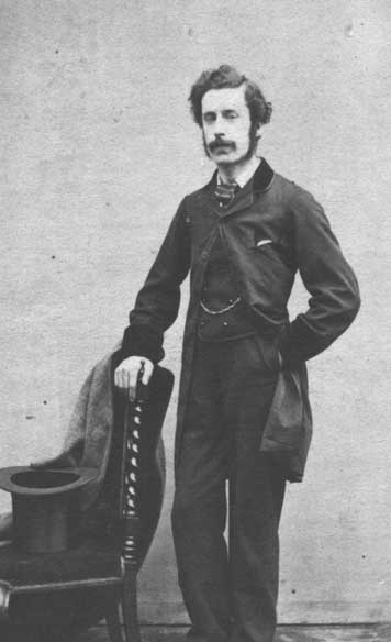 Portrait of Sir George Grey as governor of the Cape Colony, in office 1854-1861.